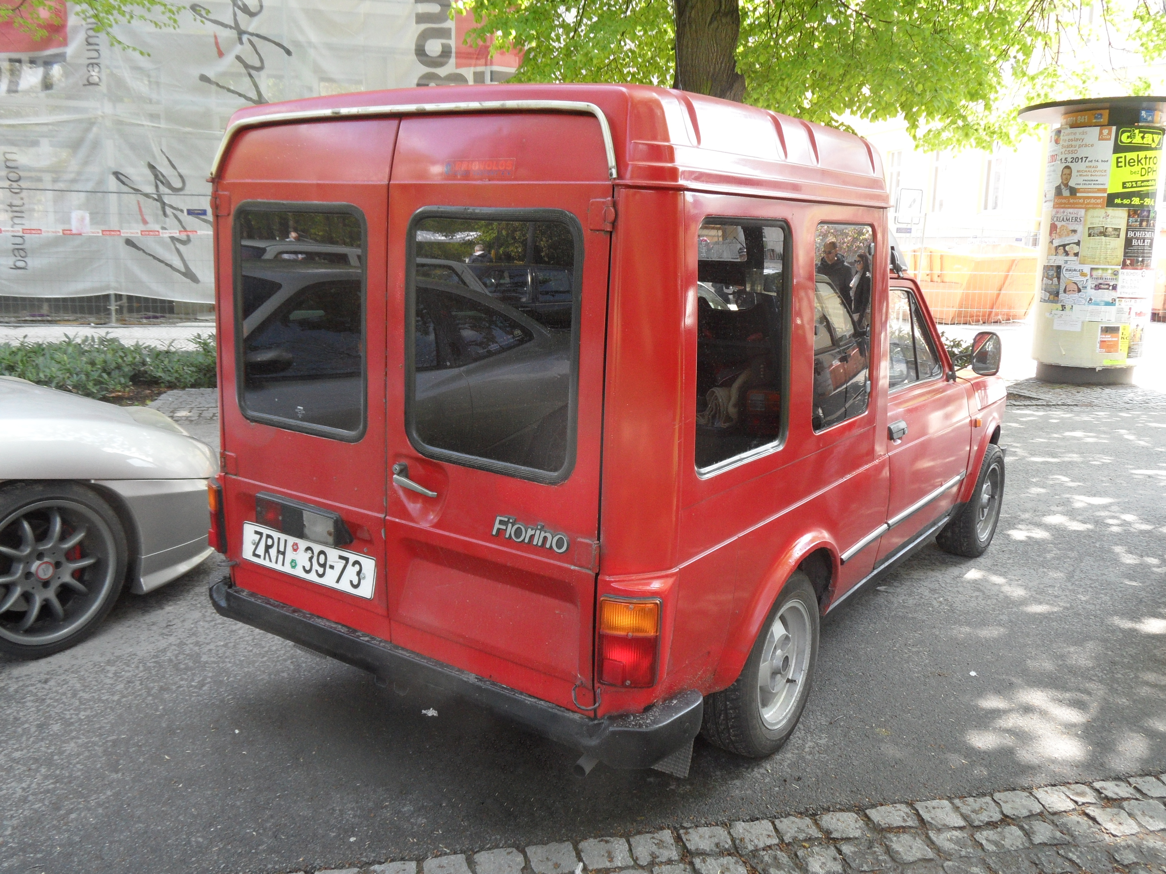 18th Meeting of Italian Car in Poděbrady; Nymburk District, the Czech Republic.Fiat Fiorino.